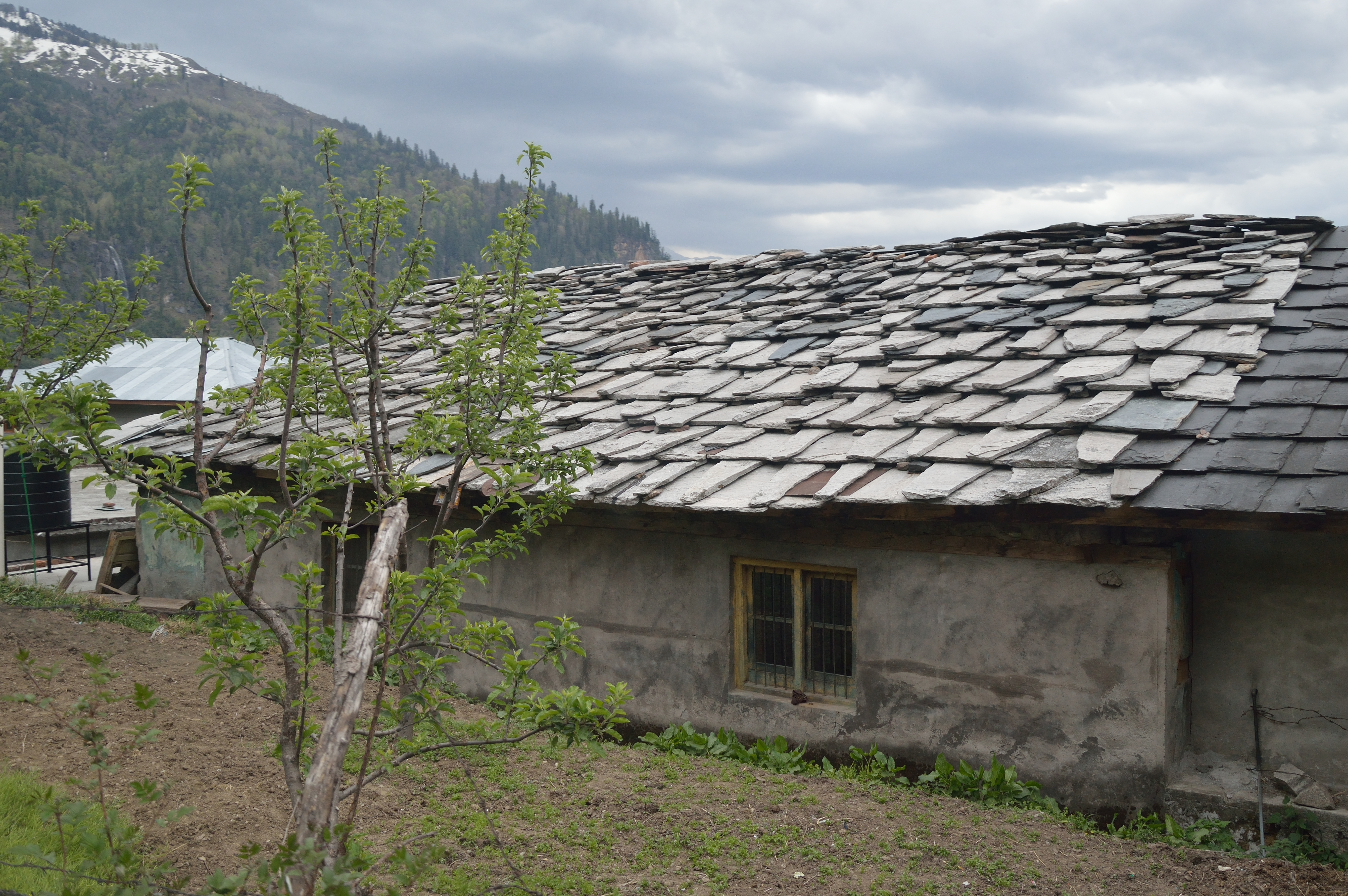 Photographed in Kullu district, Himachal Pradesh.